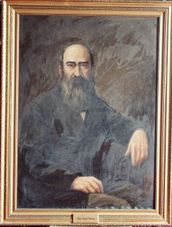 Ezequiel Hurtado, Meetings of the City Council.